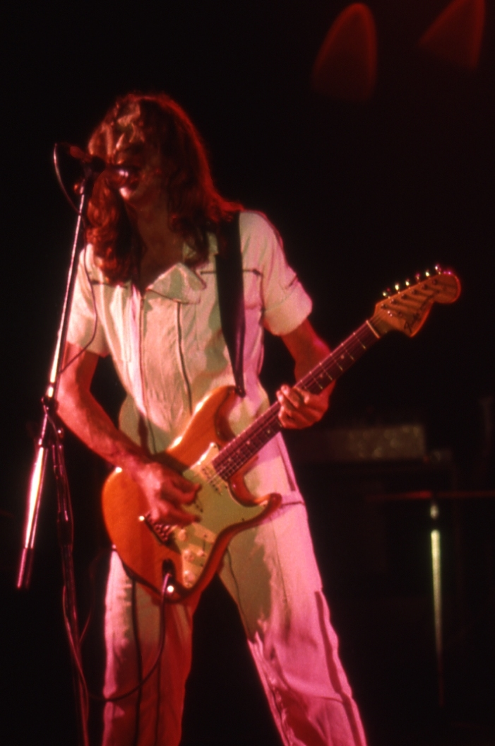 Rosendo in 1981.